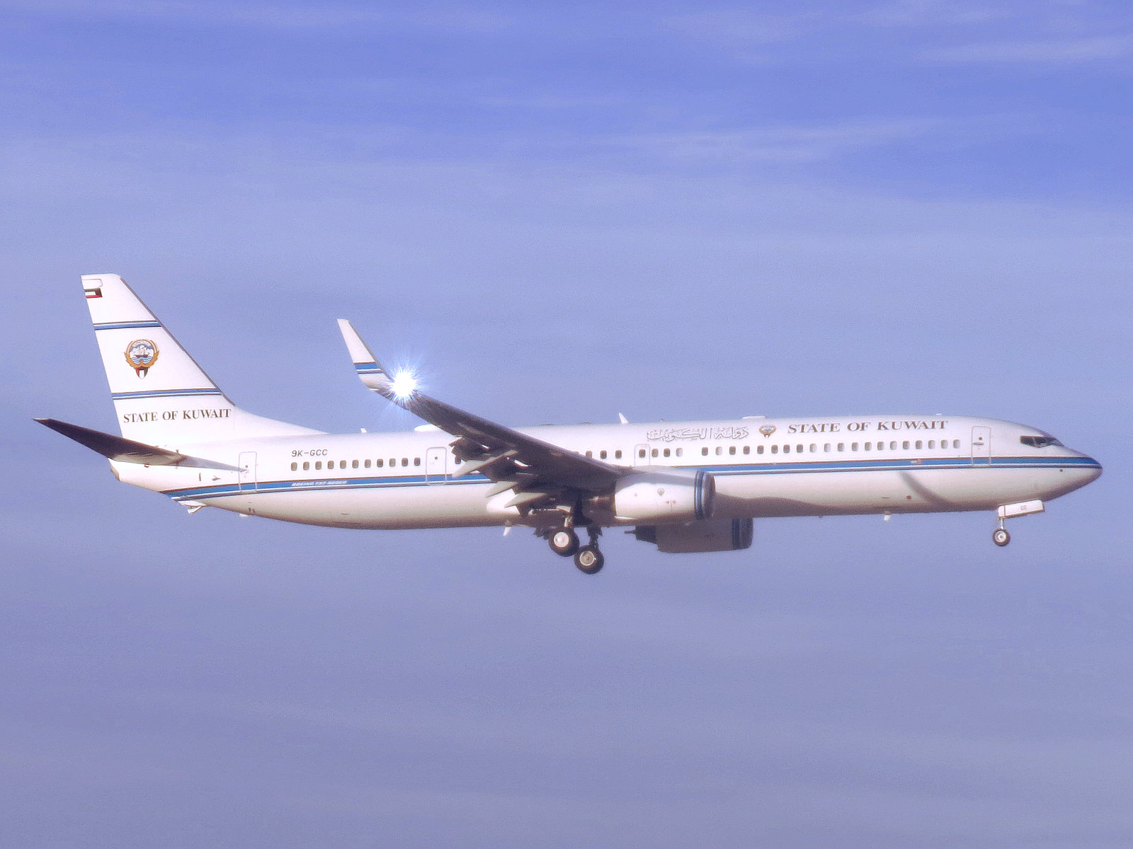 A second Kuwait Government plane (this one a Boeing Business Jet 3) is on final approach to Runway 13L at JFK Airport.